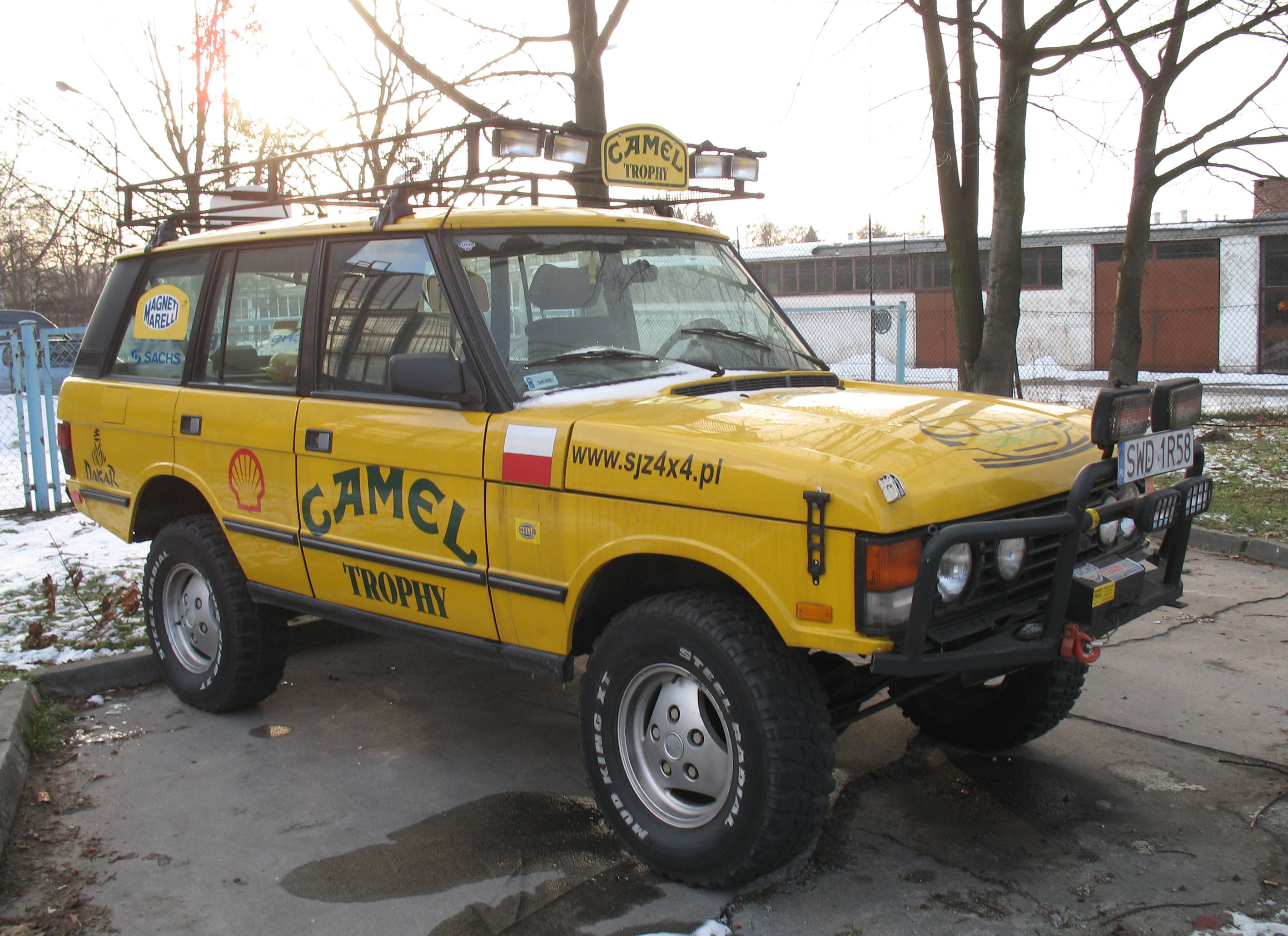 Yellow Range Rover Mk1 SUV Camel Trophy in Kraków, Poland.